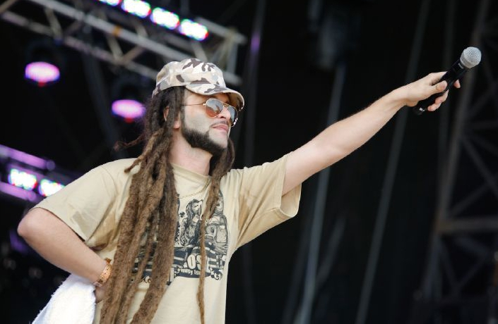 Alborosie, an italian reggae singer